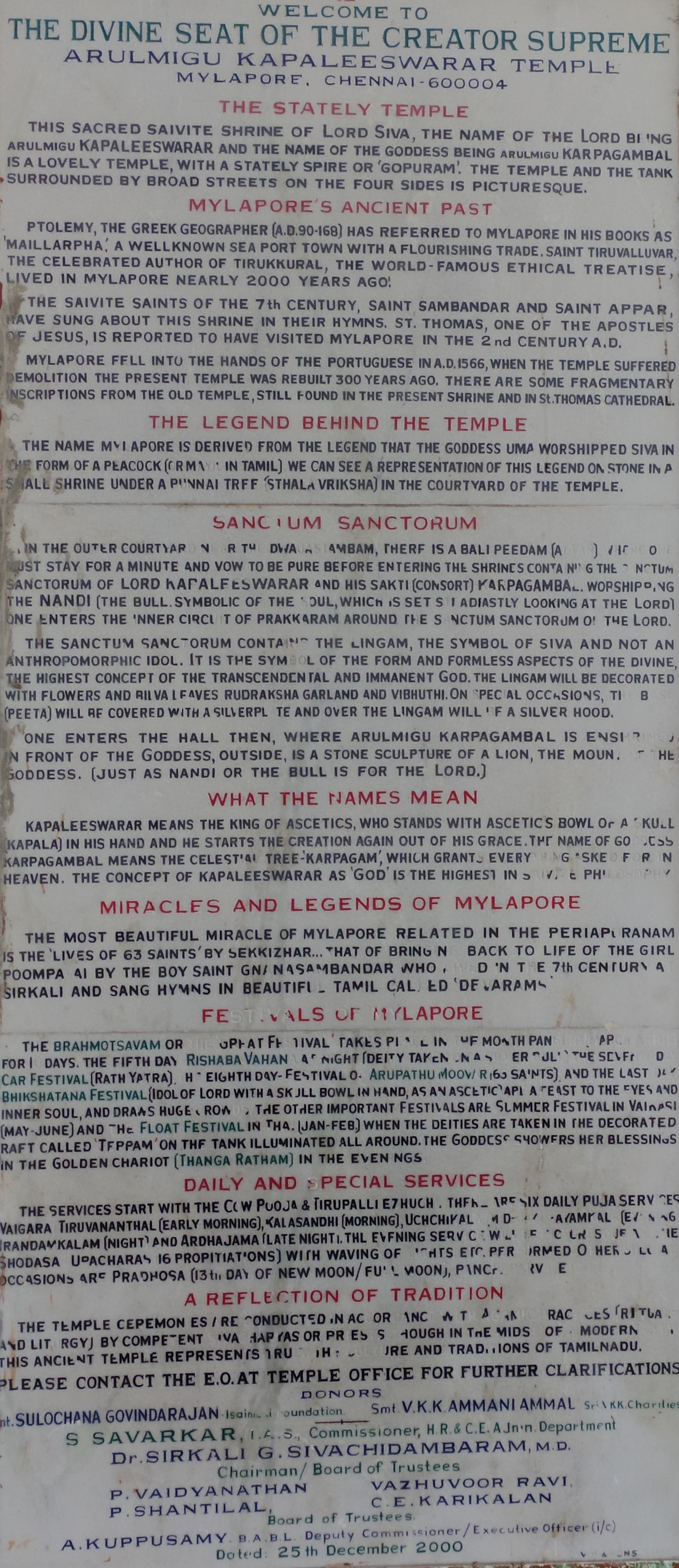 The description plate in granite in the east entrance of the temple.